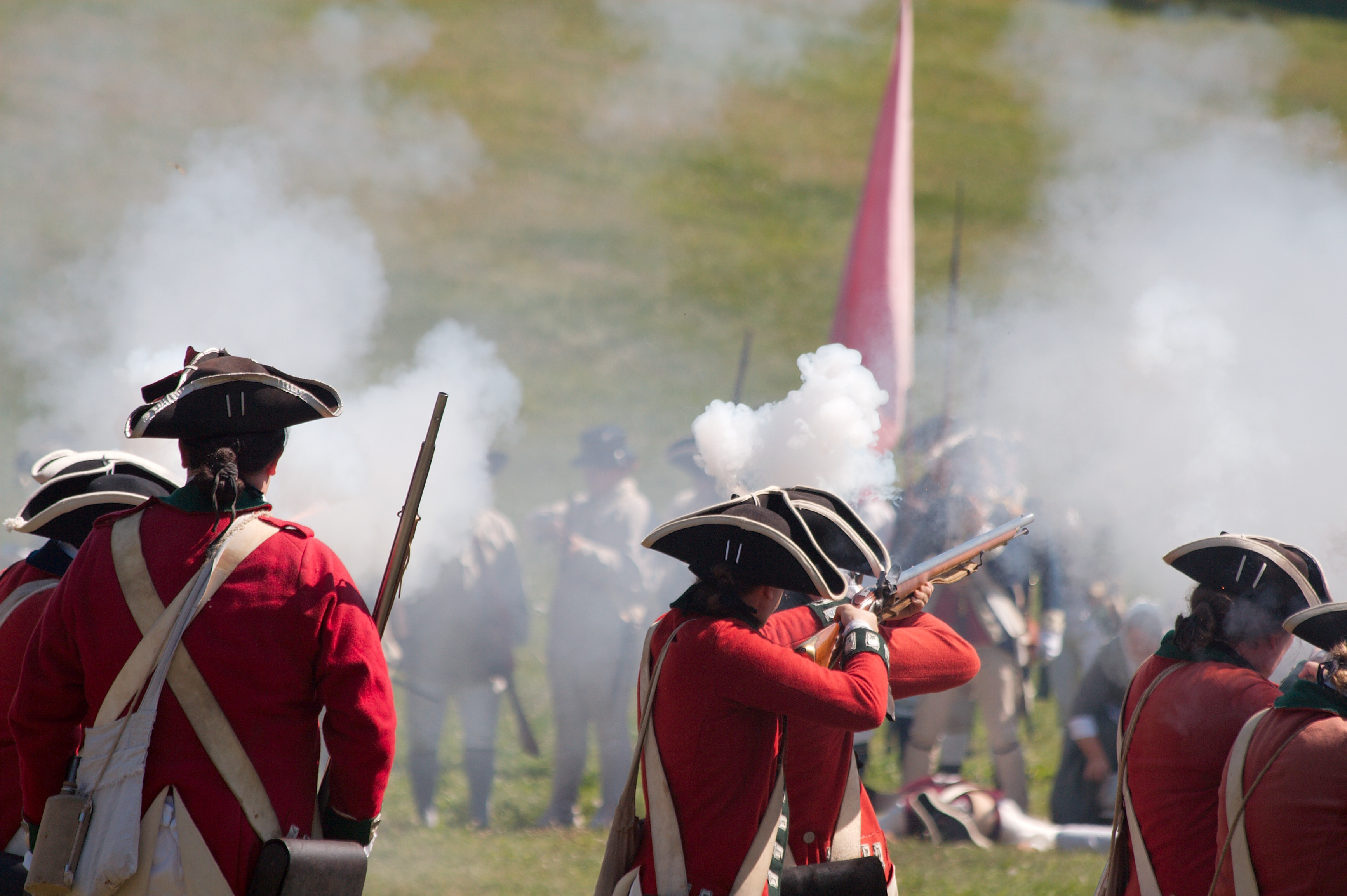 Pioneer Village, living history museum, in the Town of Saukville, Ozaukee County, Wisconsin